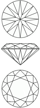 Eppler-Brillant, top and bottom view